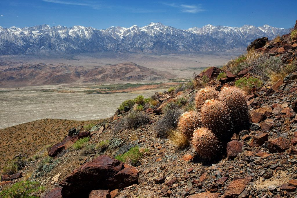 Managed by the BLM and U.S. Forest Service - Inyo National Forest, this wilderness encompasses a large portion of the Inyo Mountains, which rise to 11,000 feet at Keynot Peak and separates the Owens Valley on the west and Saline Valley on the east. These mountains have maintained most of their pristine character due to the sheer ruggedness of the terrain. Evidence of historic and prehistoric man's use of the area has been found. Vegetation includes creosote, shadscale scrub, big sagebrush, lush riparian areas in most of the canyons on the eastern slope and pinyon-juniper woodland, bristlecone and limber pine on the higher reaches. Wildlife include desert bighorn sheep and the Inyo Mountain salamander.